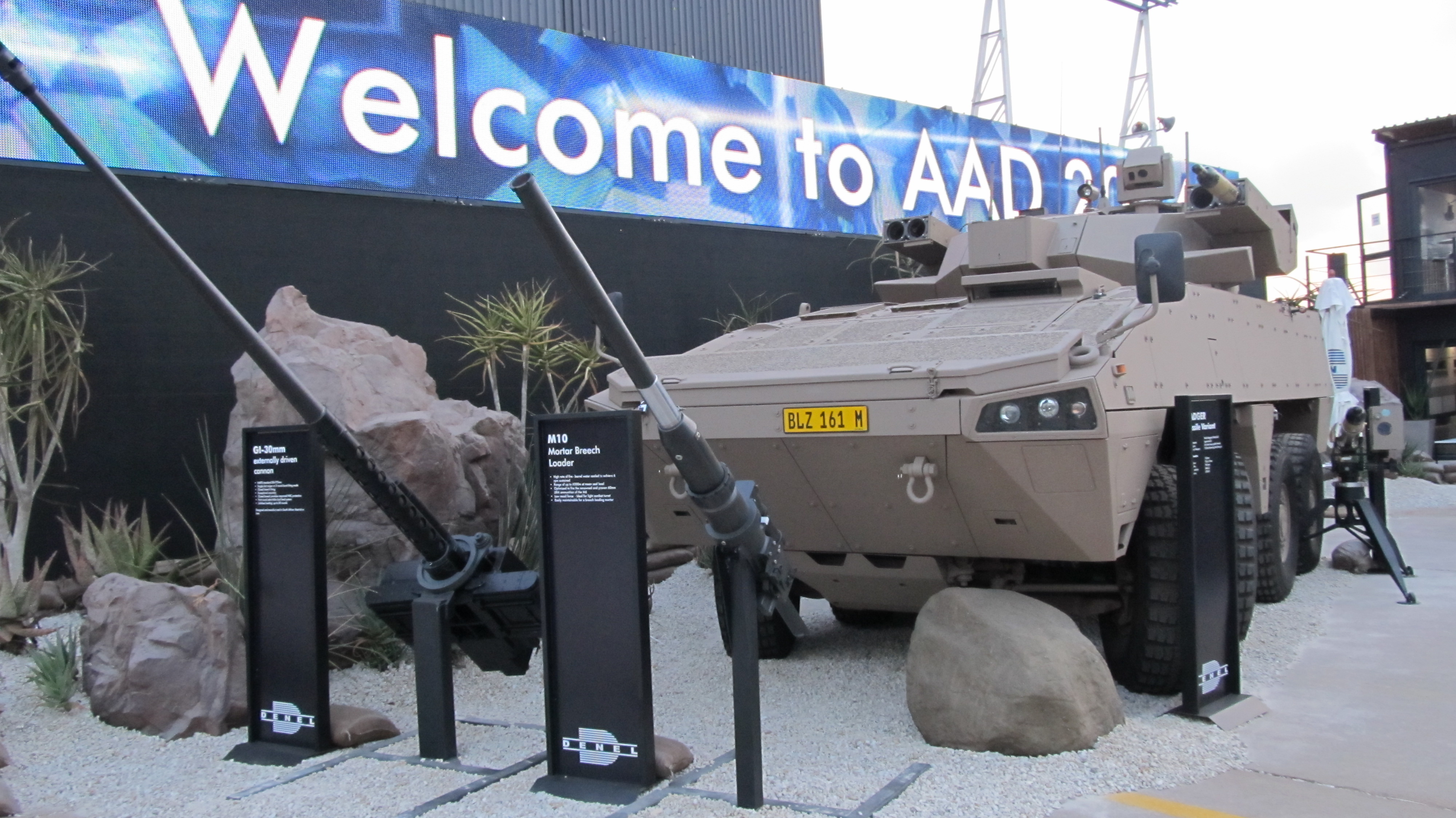 A Badger IFV tank destroyer variant at Africa Aerospace and Defence 2014